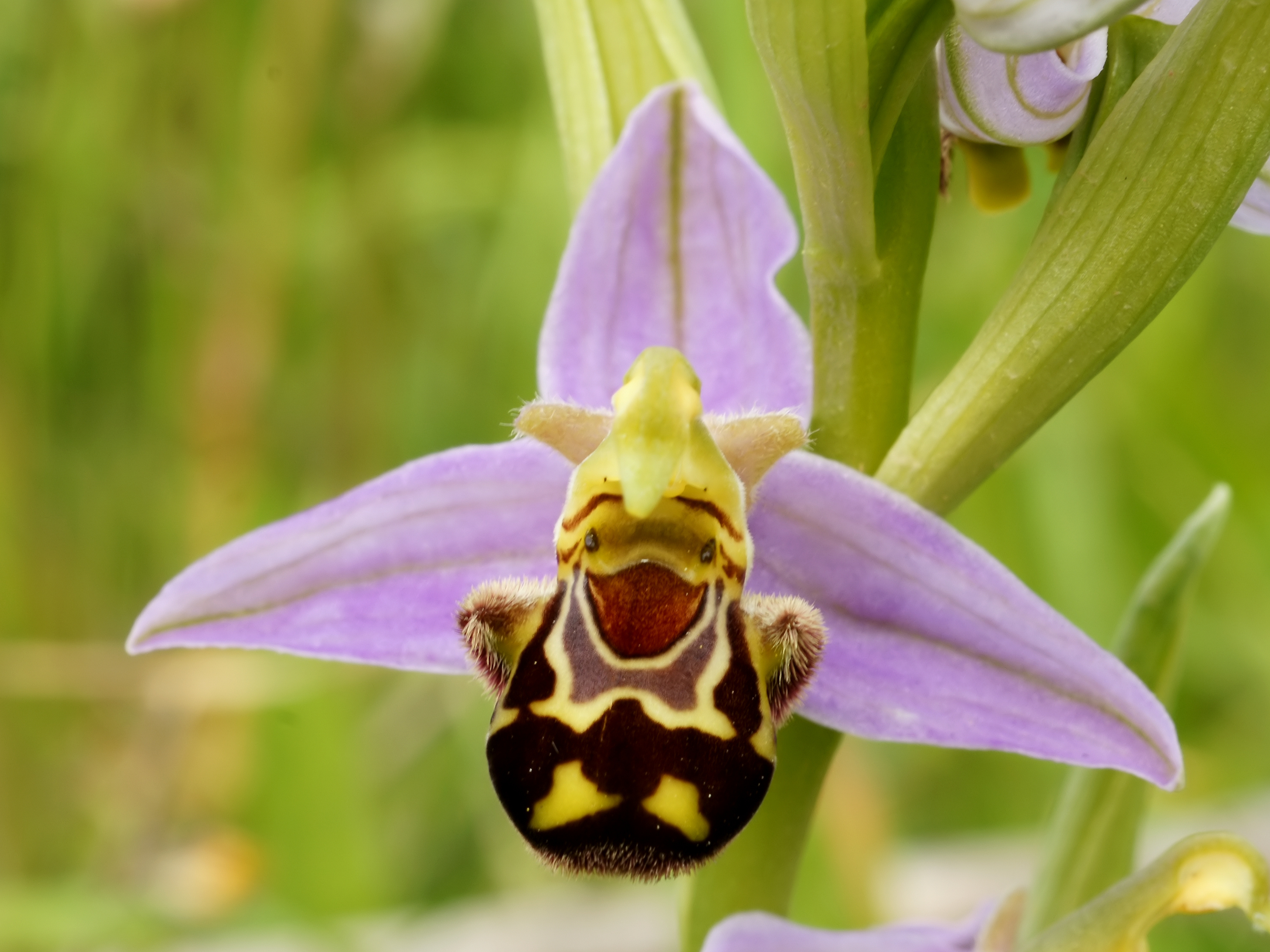 Bee Orchid. Approximate co-ordinates: plant located within 5 km from Cantoniera sclamoris, Sardinia, Italy